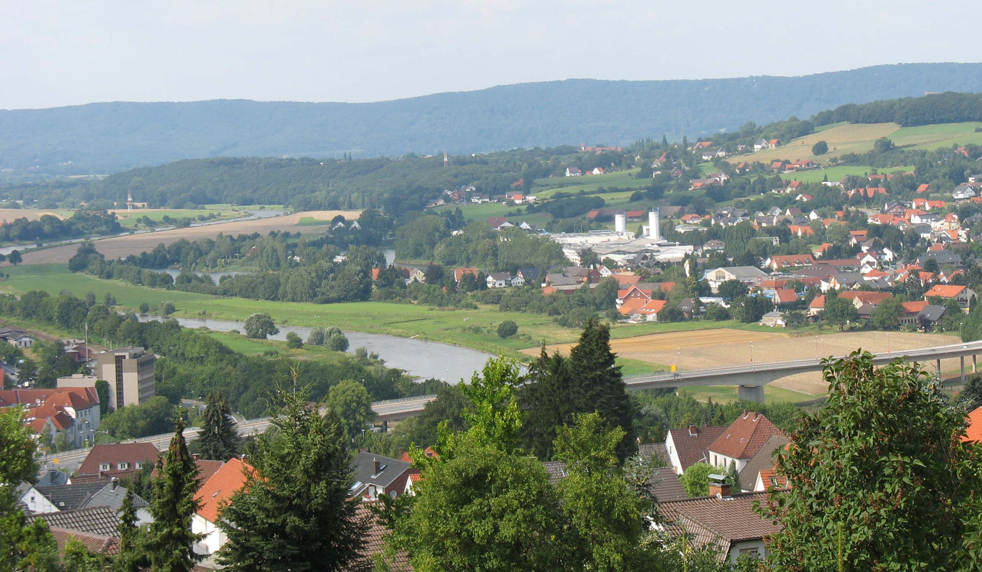 Town of Vlotho, District of Herford, North Rhine-Westphalia, Germany and Weser River.